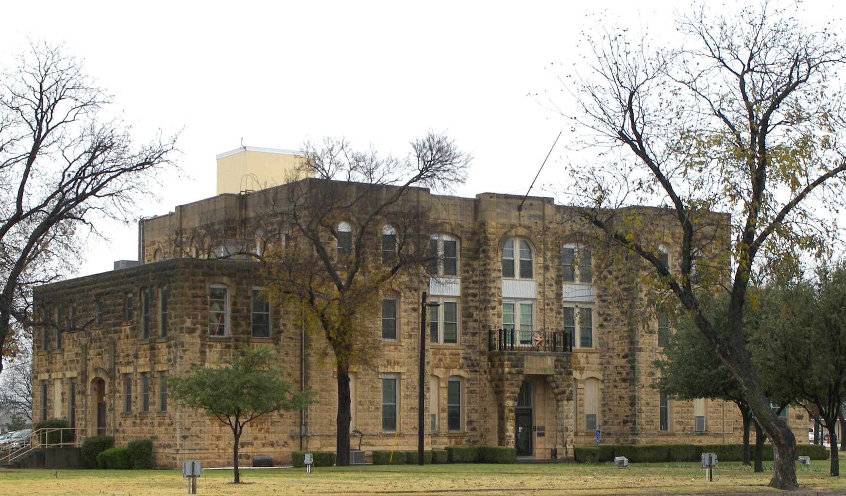 The Runnels County Courthouse located in Ballinger, Texas, United States.